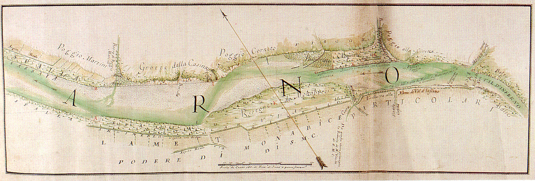 Map of a section of river Arno near Monabice farm in Montevarchi